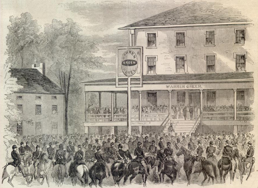 McClellan's adieux to his officers at Warrenton, Virginia. Sketched by Theodor Davis